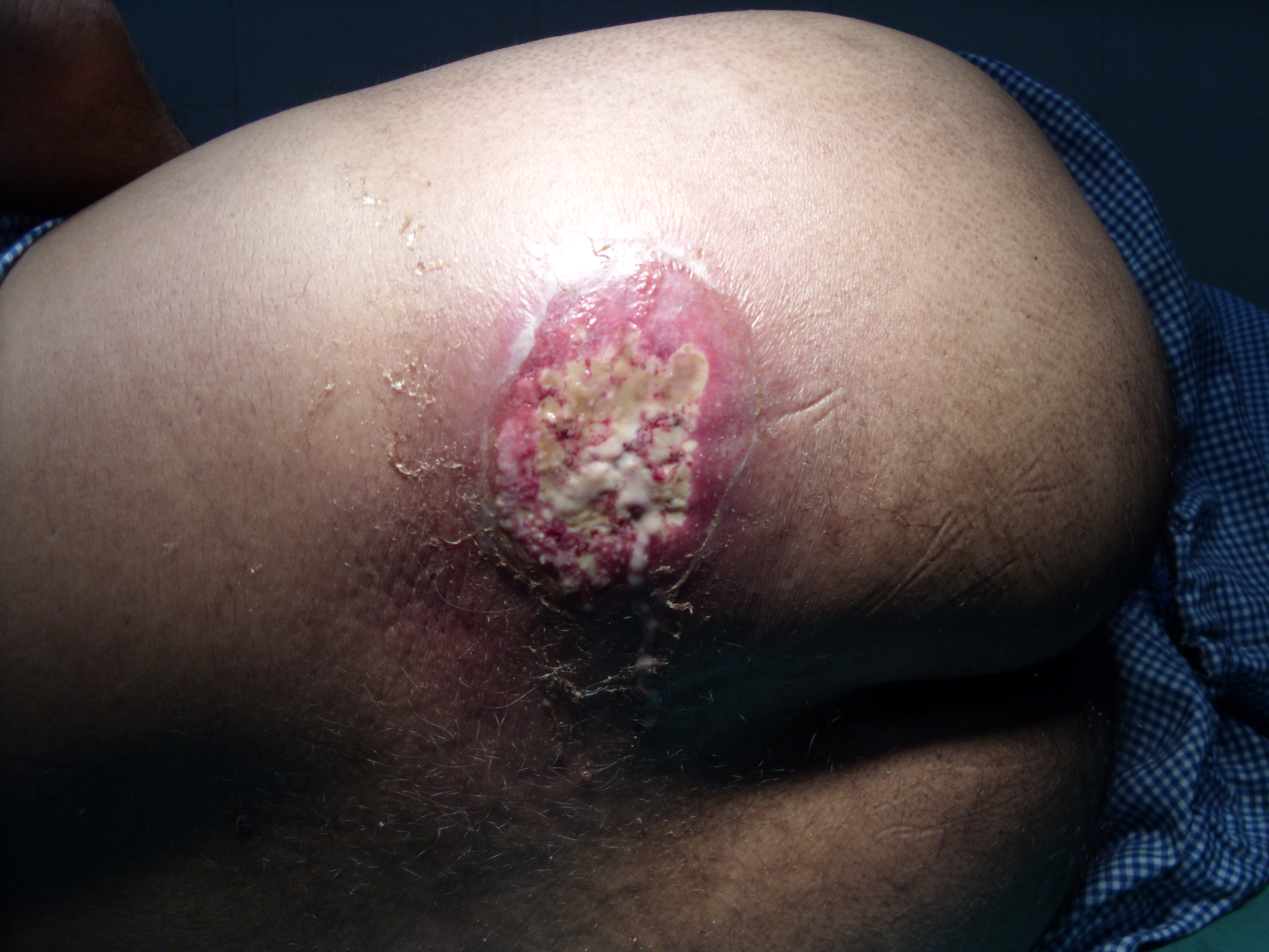 Carbuncle on buttock of a diabetic patient